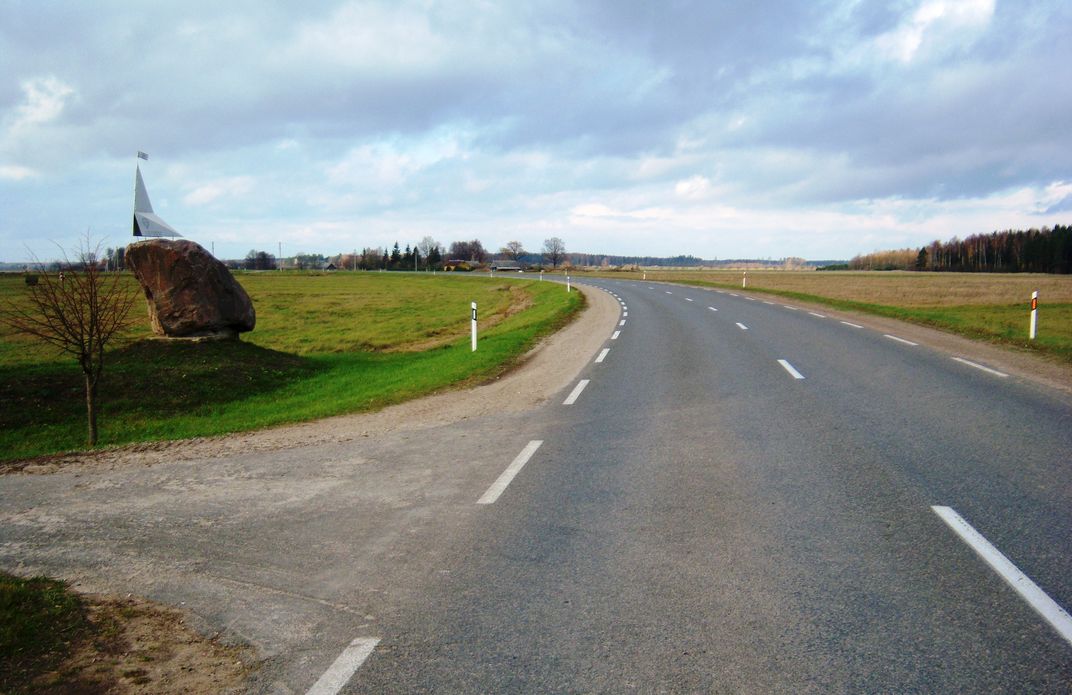 Stone in memory of air balloon record flight, Rukiškis, Anykščiai District, Lithuania